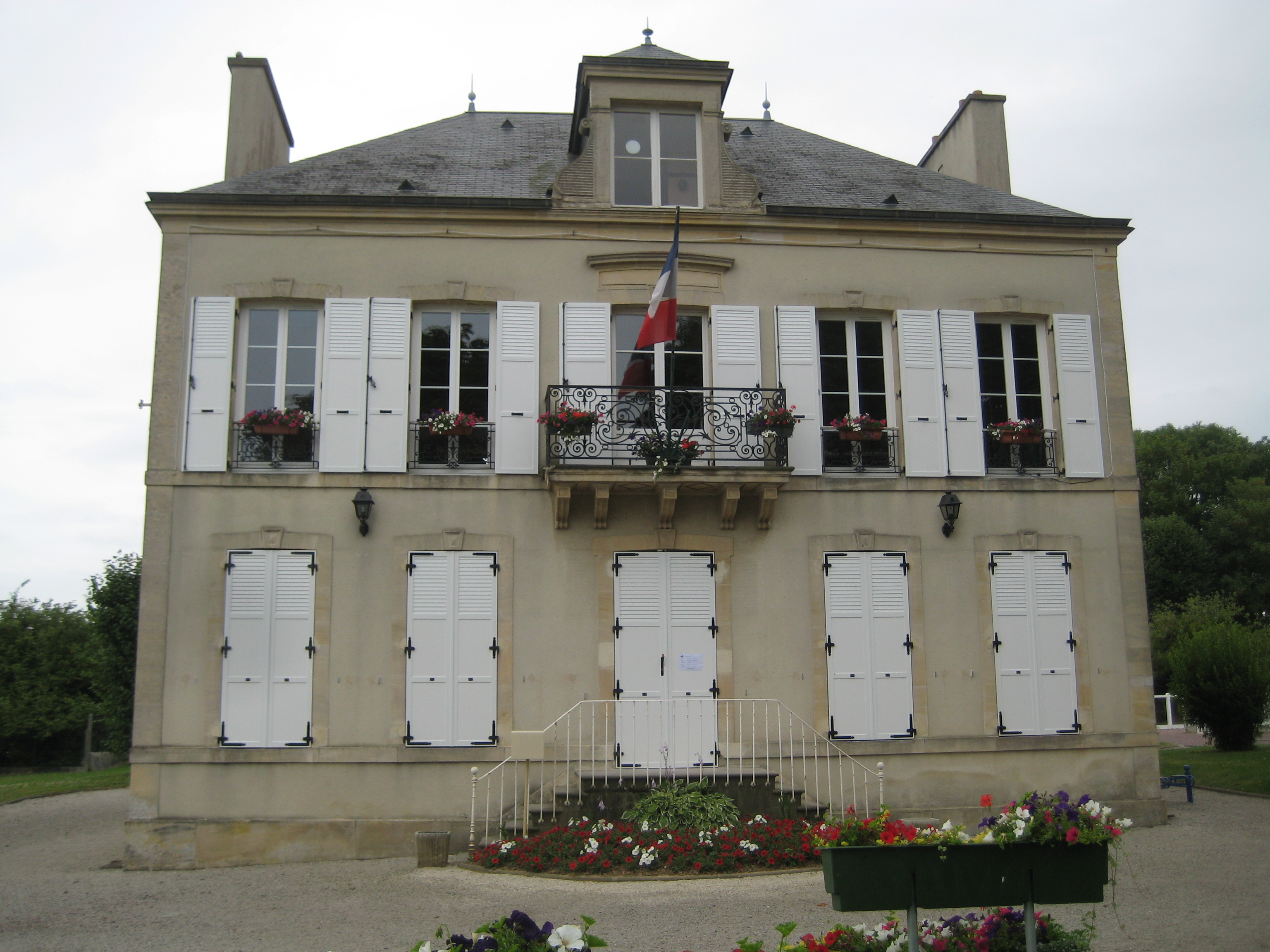 Town Hall of Colleville-Montgomery, Calvados, France